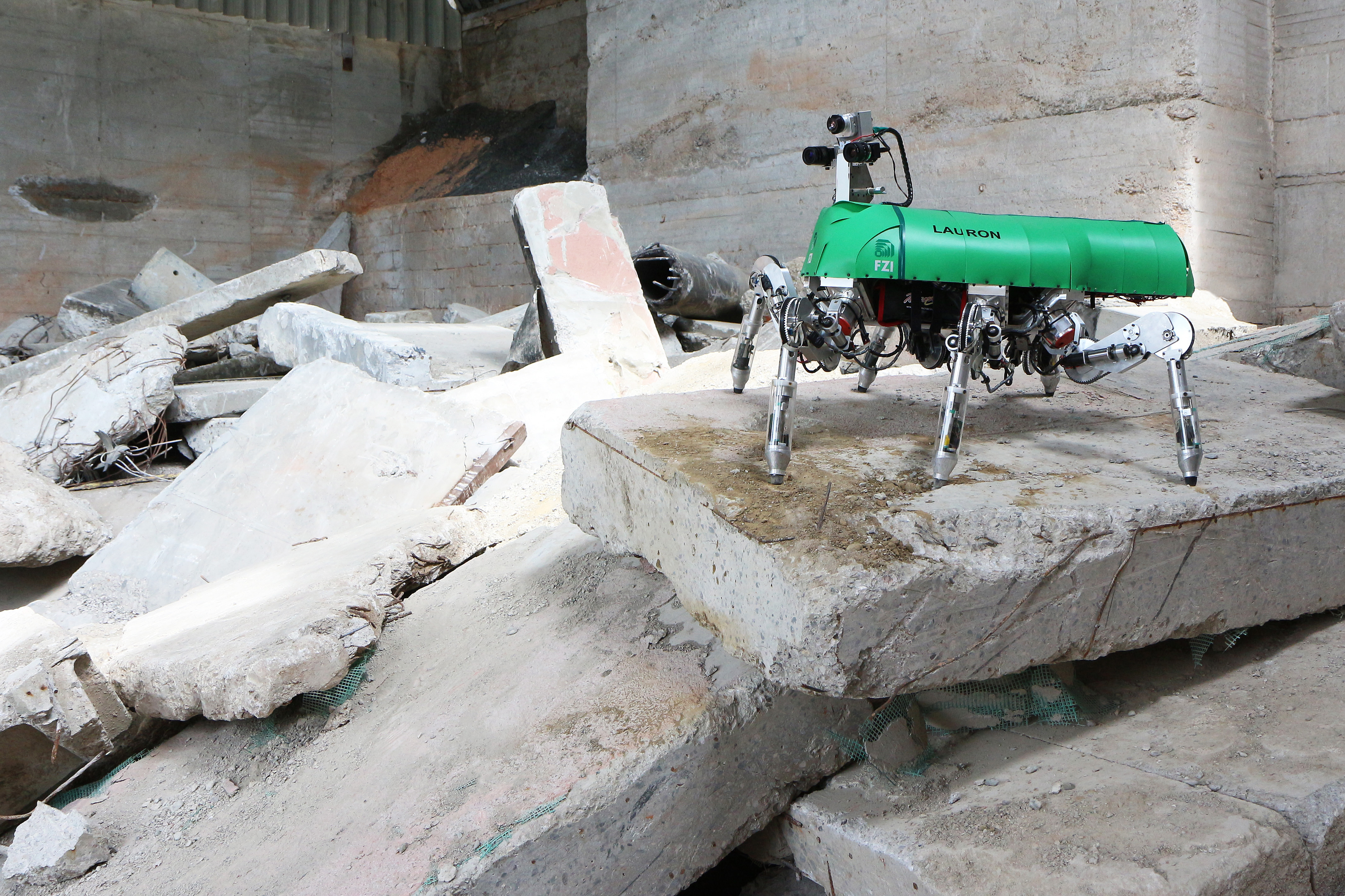 Six-legged walking robot LAURON V from the FZI Research Center for Information Technology in Karlsruhe, Germany.